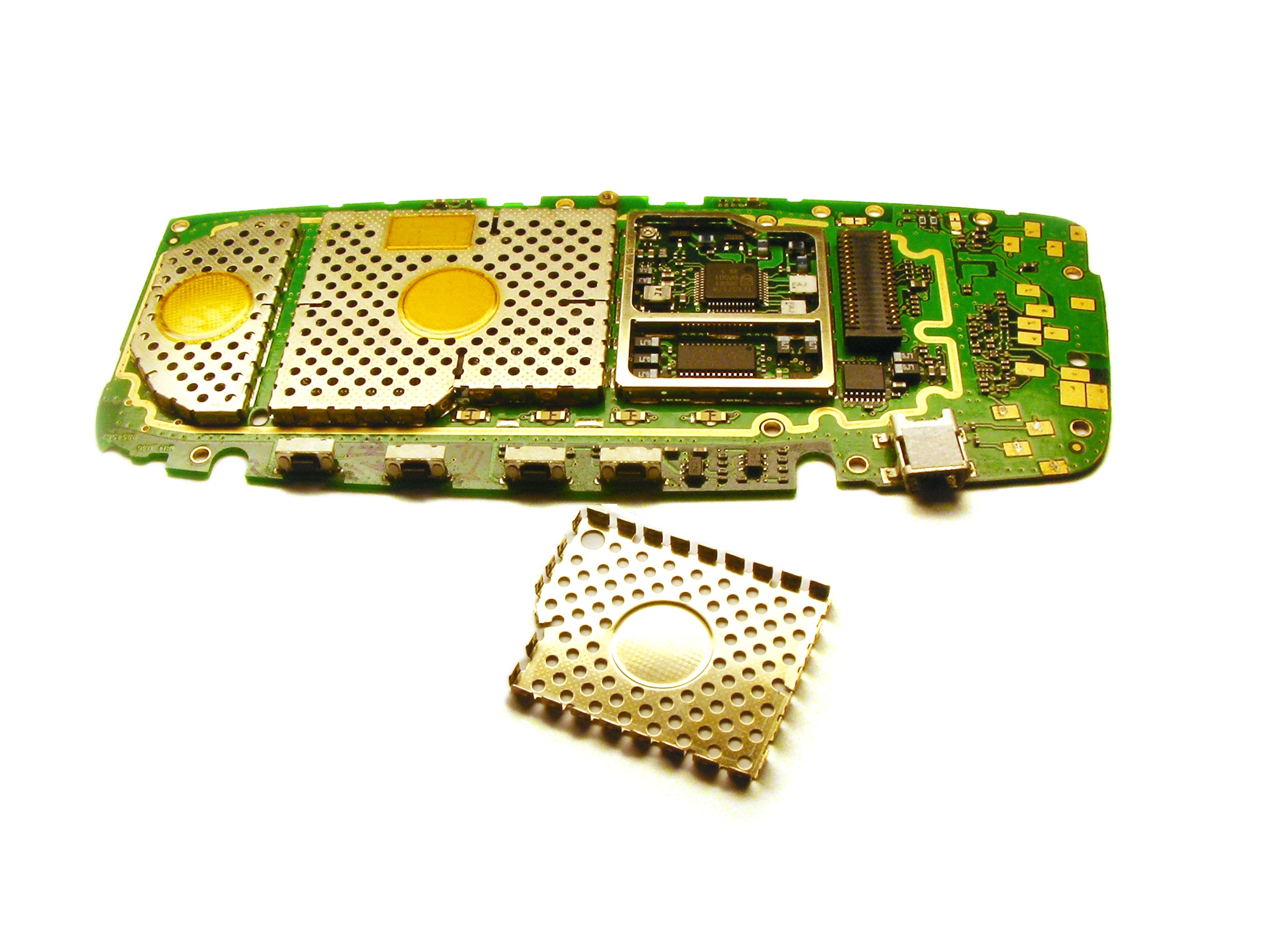 Electromagnetic shielding cages inside a disassembled mobile phone. One cage is removed to show the protected circuit inside.